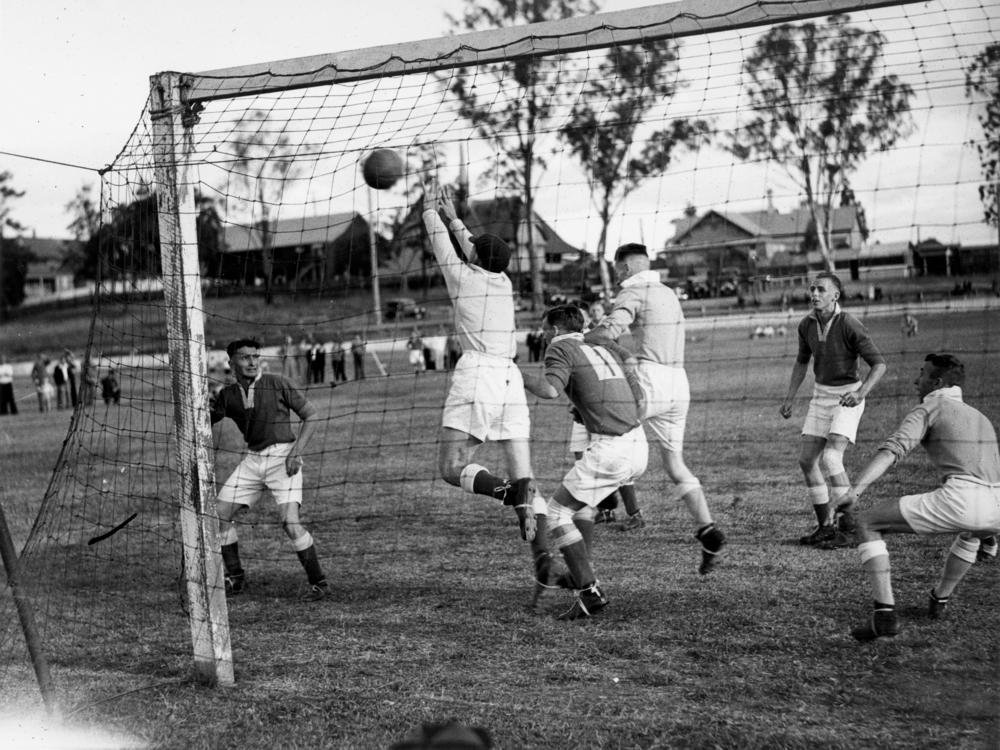 Shot for goal during an association football match in Brisbane, Australia.